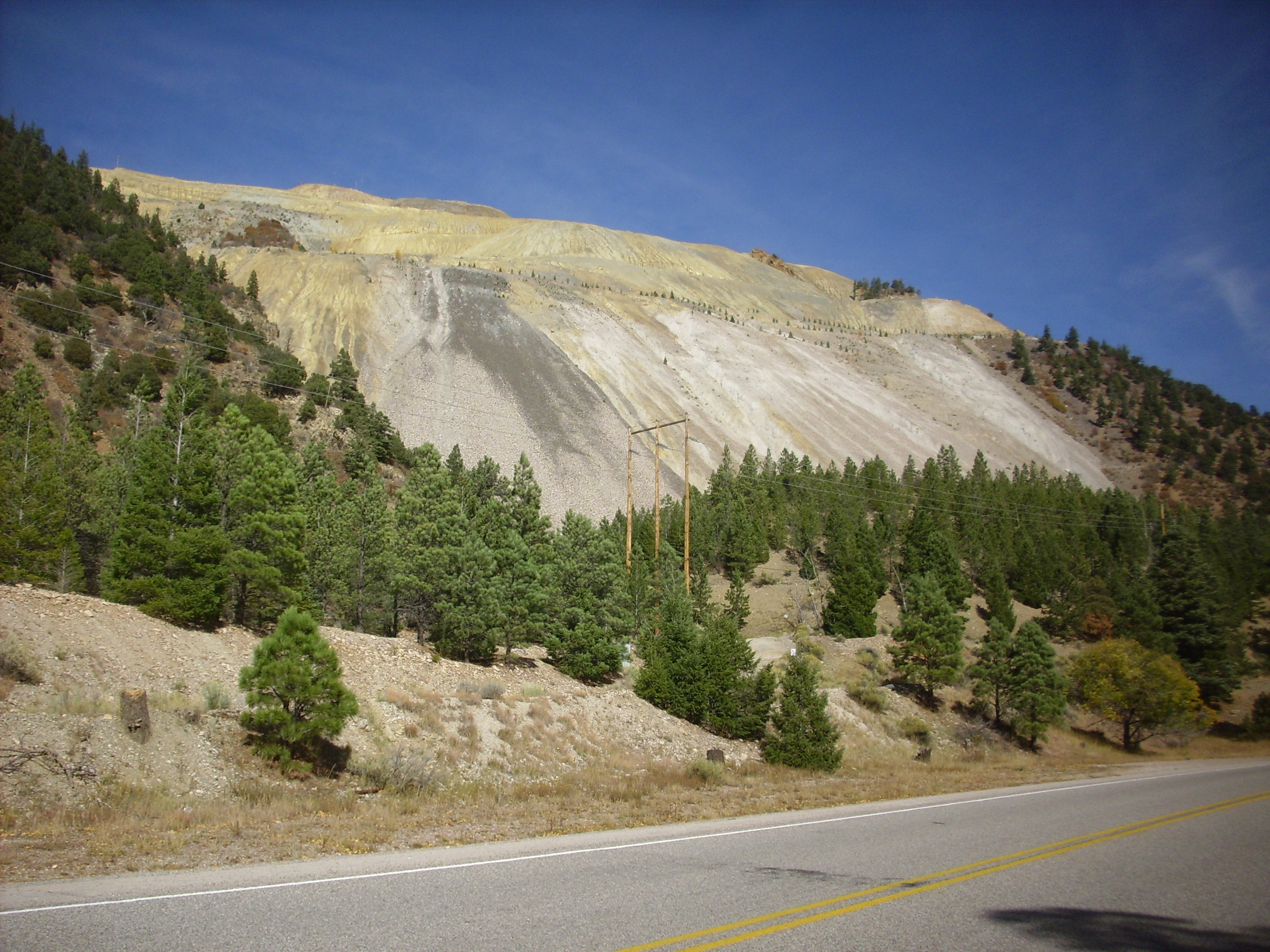 Tailings of the Questa molybdenum mine, New Mexico, USA. The mine produced 4760 tons of molybdenum concentrate by 1984, but was shut down permanently in 2014.